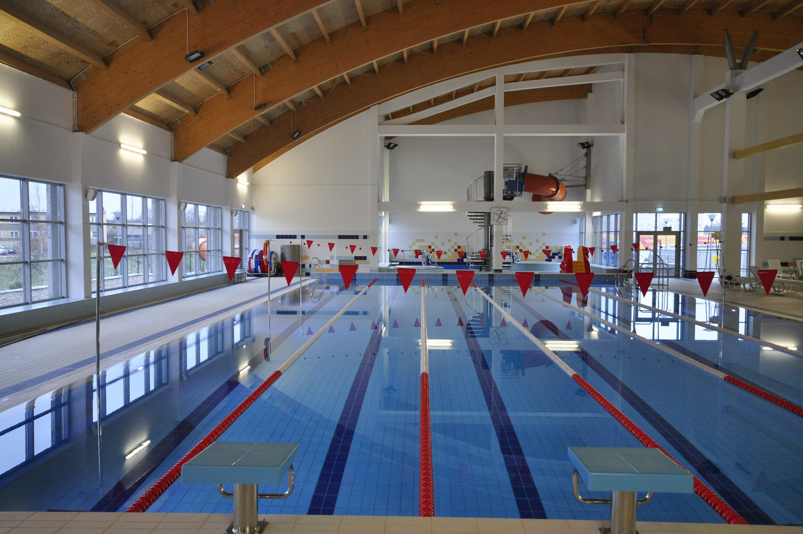 Pool in Żagań